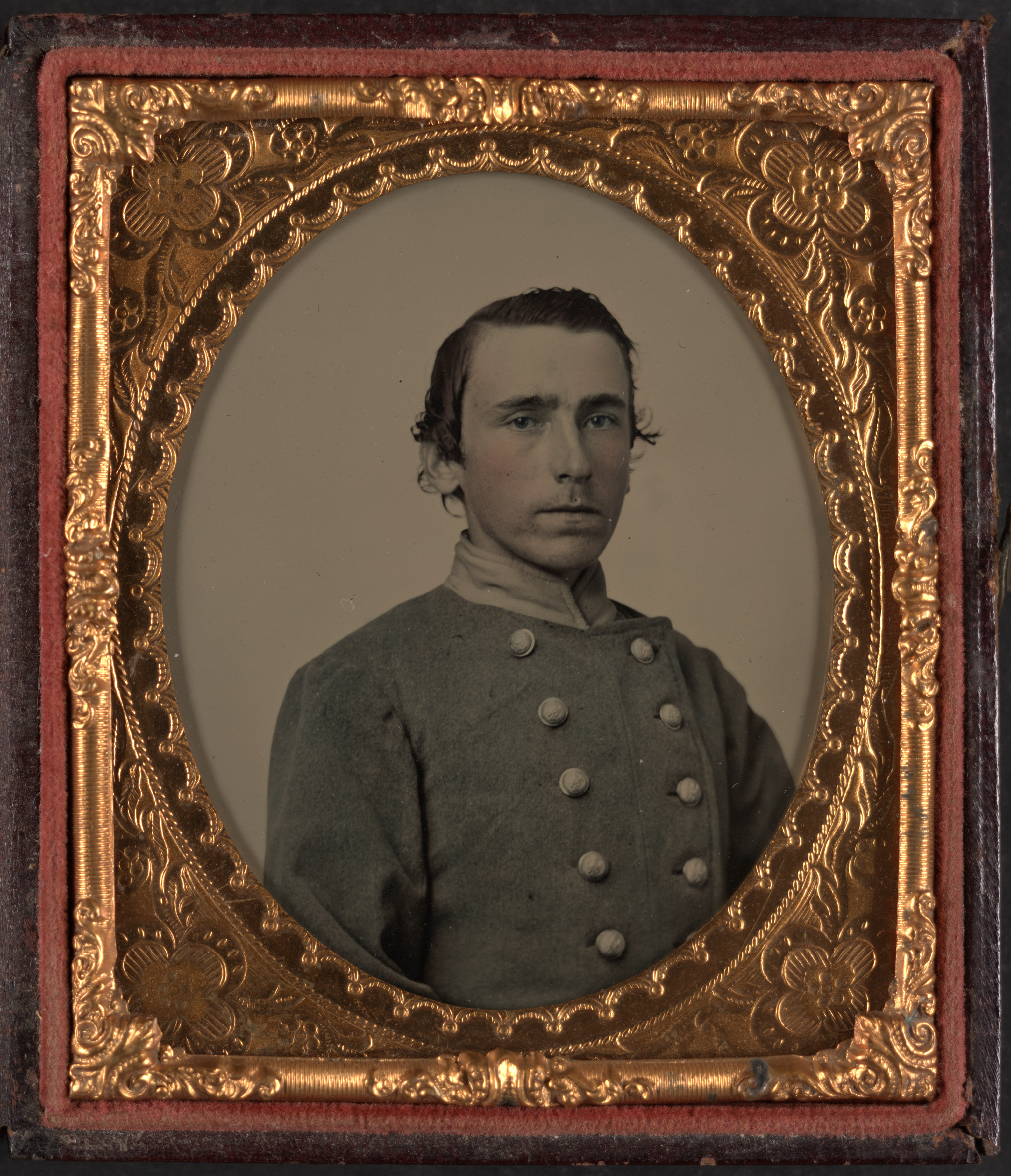 Title: First Lieutenant Thomas S. Nelson of Co. I, 4th South Carolina Cavalry Regiment in uniform Abstract/medium: 1 photograph : ruby ambrotype ; plate 82 x 70 mm (sixth plate format), case 93 x 80 mm.